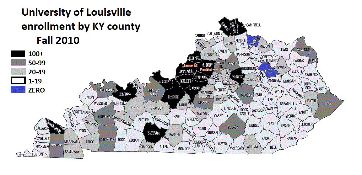 Map of Kentucky showing the University of Louisville enrollment by county